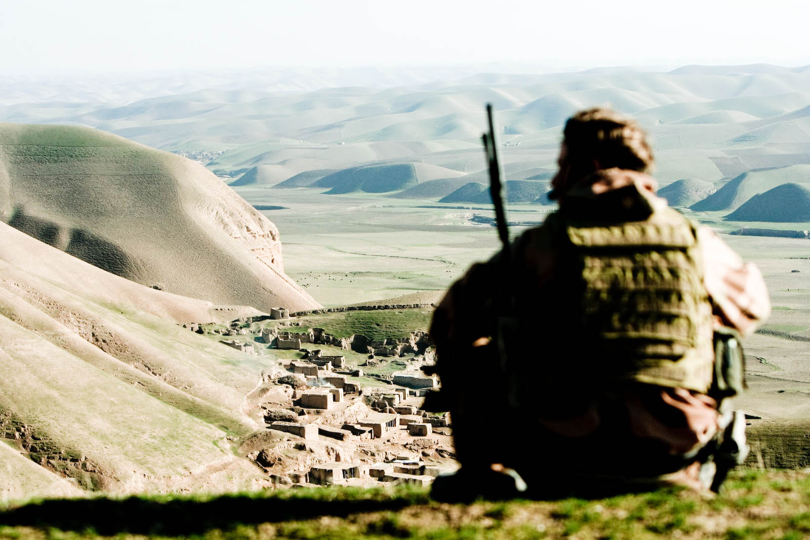 Norwegian soldiers on patrol in Faryab province, Afghanistan